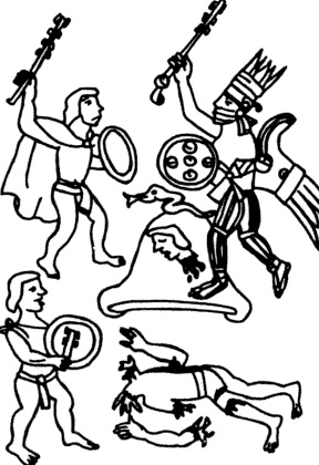 Huitzilopochtli kills Centzon Hutznahuac